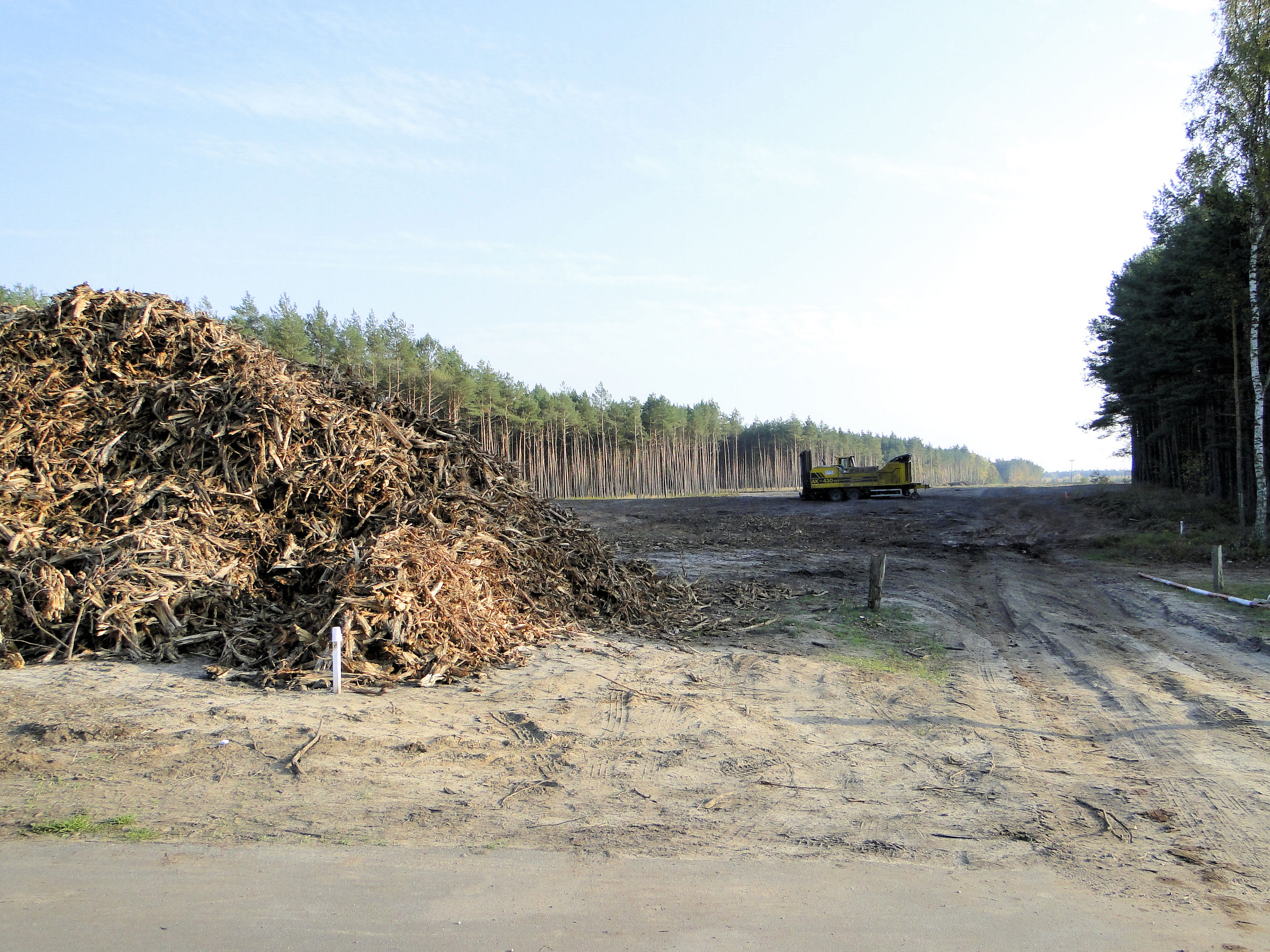 Construction of A14 motorway near Groß Laasch, district Ludwigslust-Parchim, Mecklenburg-Vorpommern, Germany